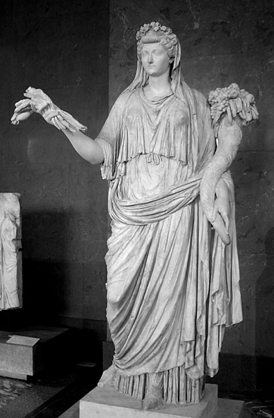 Livia Drusilla, standing marble sculpture as Ops, with wheat sheaf and cornucopia. Marble, Roman artwork, 1st century CE.